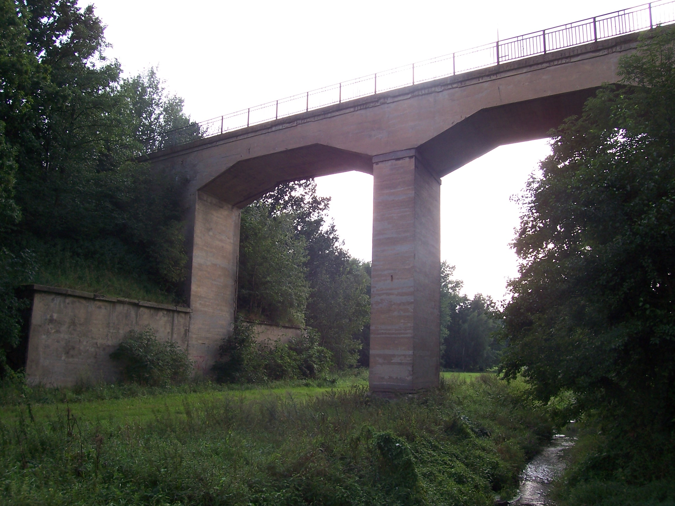 Railway bridge near Hohburg (Landkreis Leipzig) at the railway line Eilenburg-Wurzen